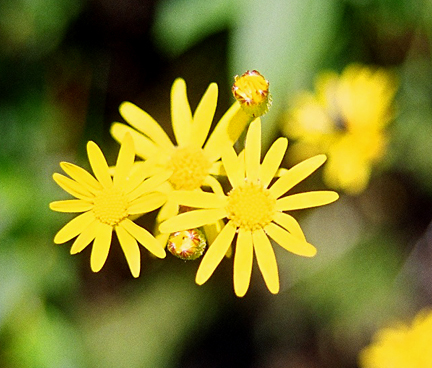 Arnica (Arnica spp.) blooms mid-June through August in both montane and subalpine evergreen forests. It bears large, bright yellow ray flowers, and the Rocky Mountain region hosts several species, most commonly the heart-leaved arnica (A. cordifolia), the broad-leafed arnica (A. latifolia), and the narrow-leafed arnica (A. fulgens).